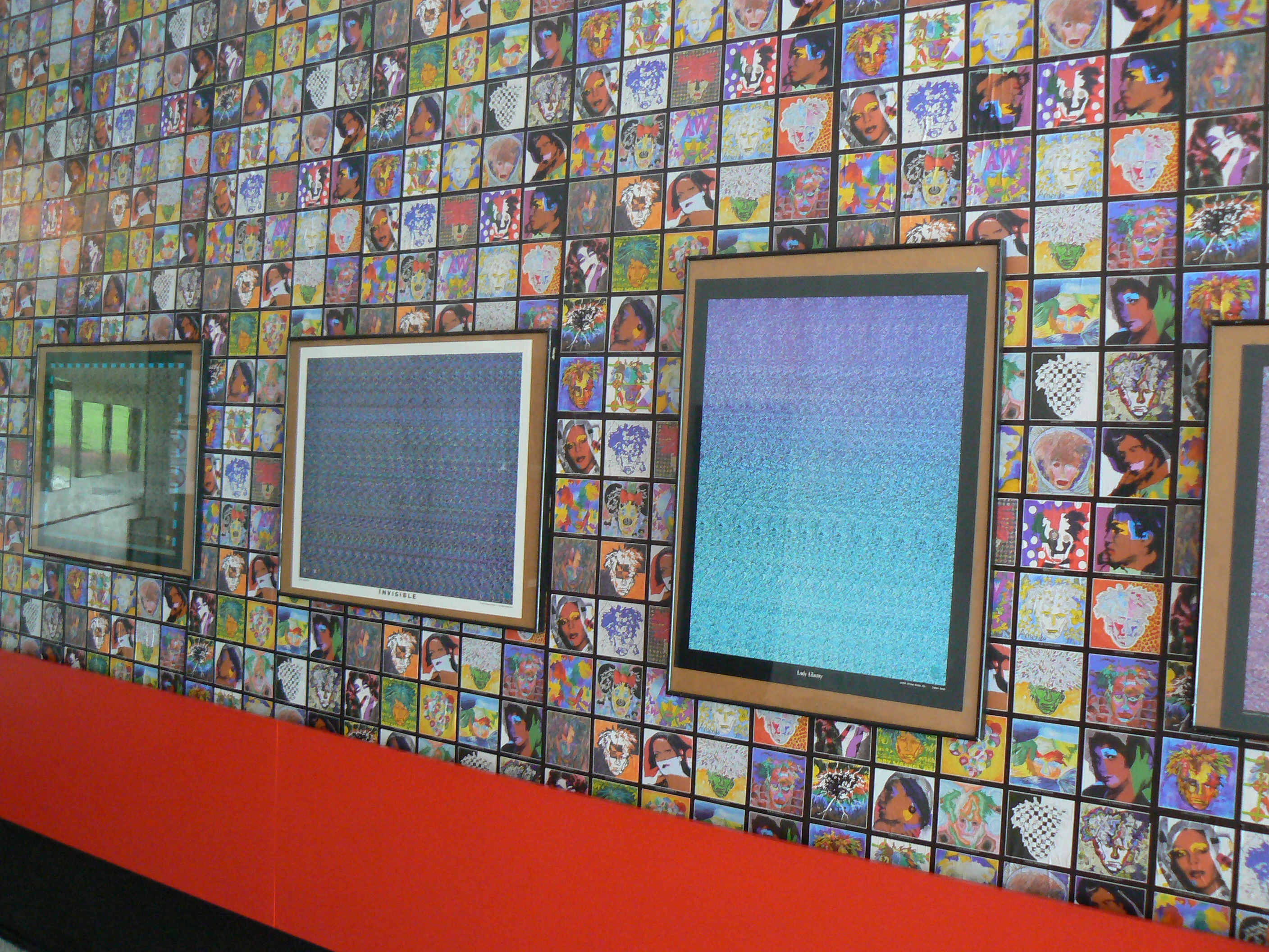 Andy Warhol Museum of the Modern Art Medzilaborce, Slovakia